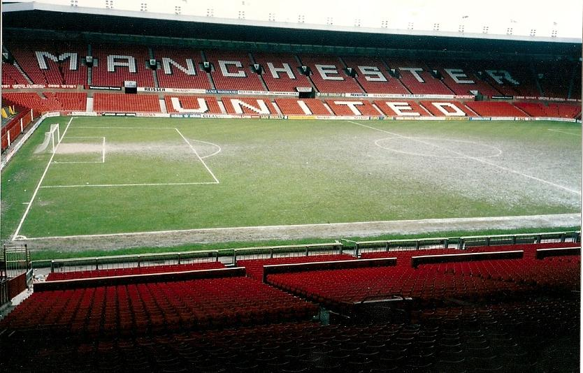 Old Trafford, Manchester, 1992, "feel free to use"